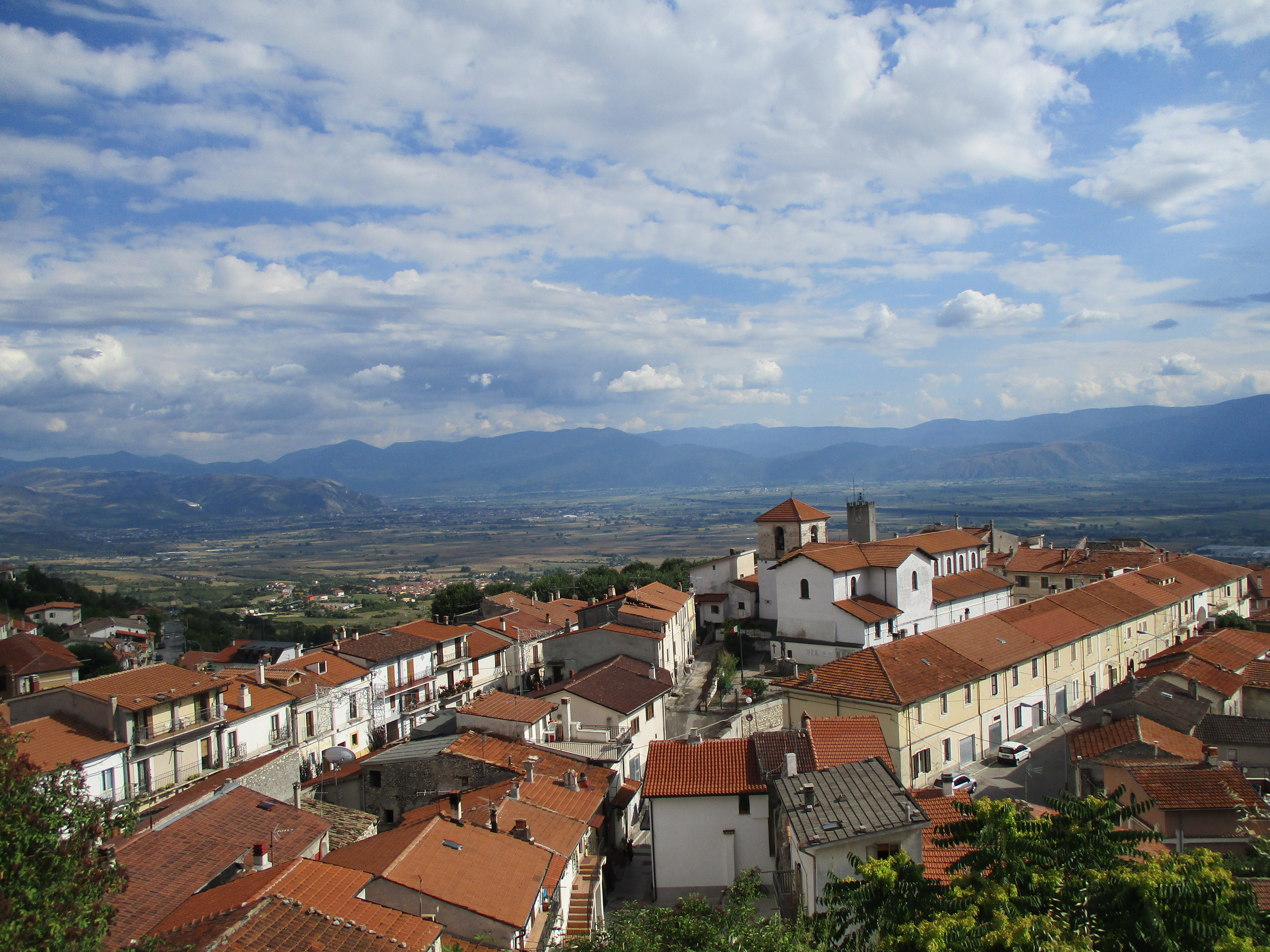 View of Aielli